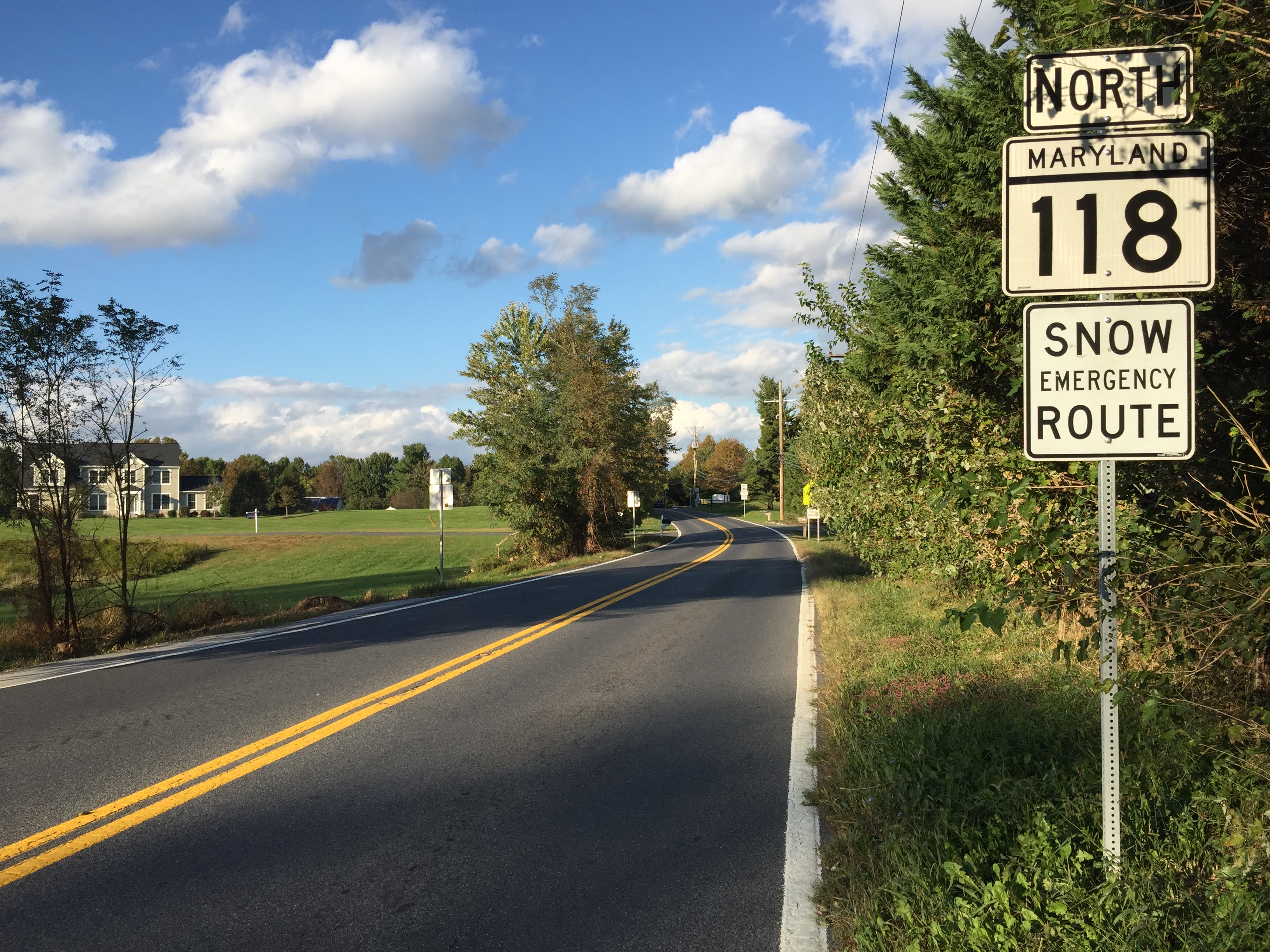 View north along Maryland State Route 118 (Germantown Road) at Maryland State Route 28 (Darnestown Road) in Darnestown, Montgomery County, Maryland